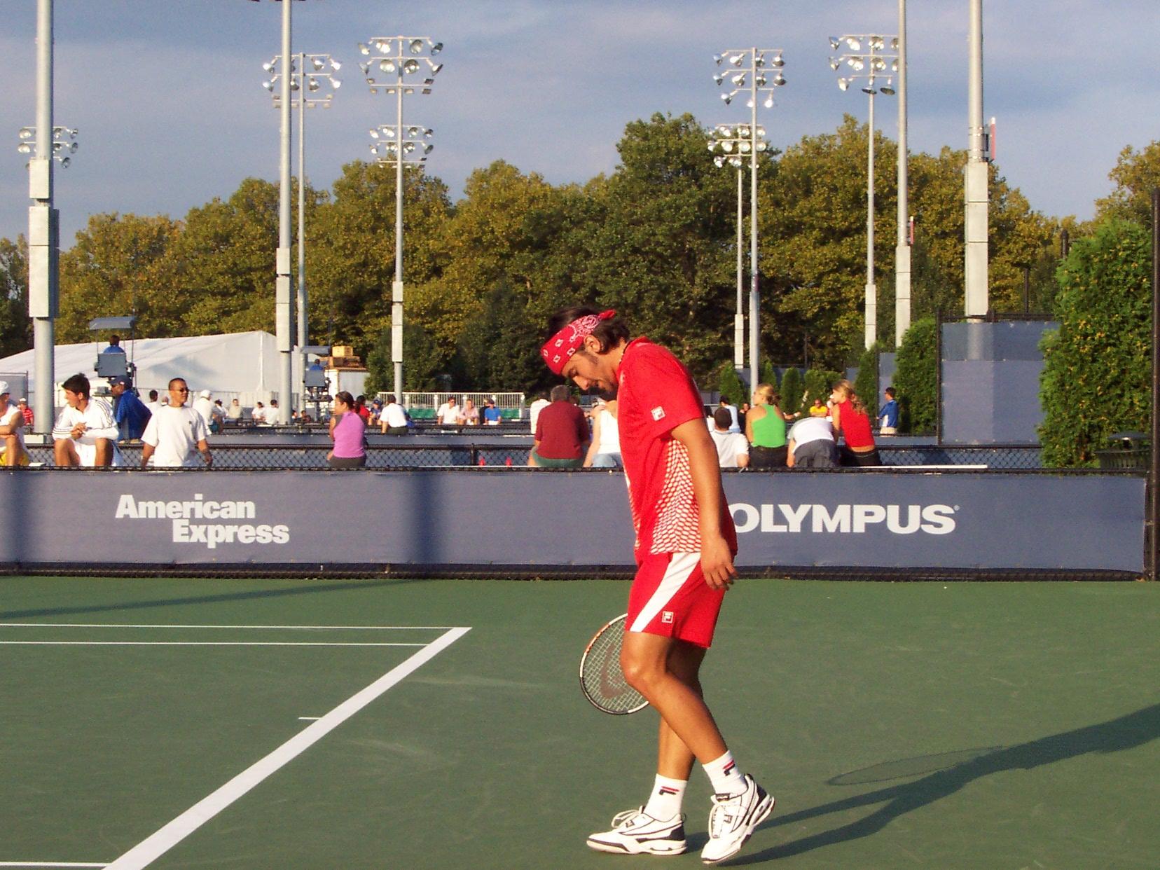 Janko Tipsarevic At The 2004 U.S. Open Qualifying